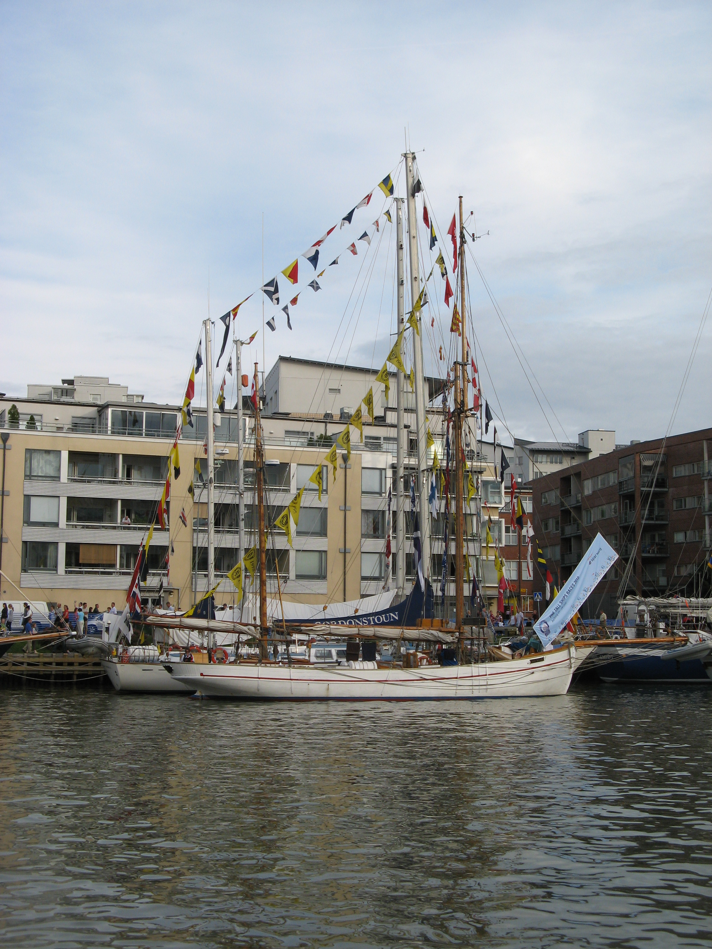 Jens Krogh of Aalborg, Denmark, built 1899, in Aura river, Tall Ships' Races in Turku 2009.